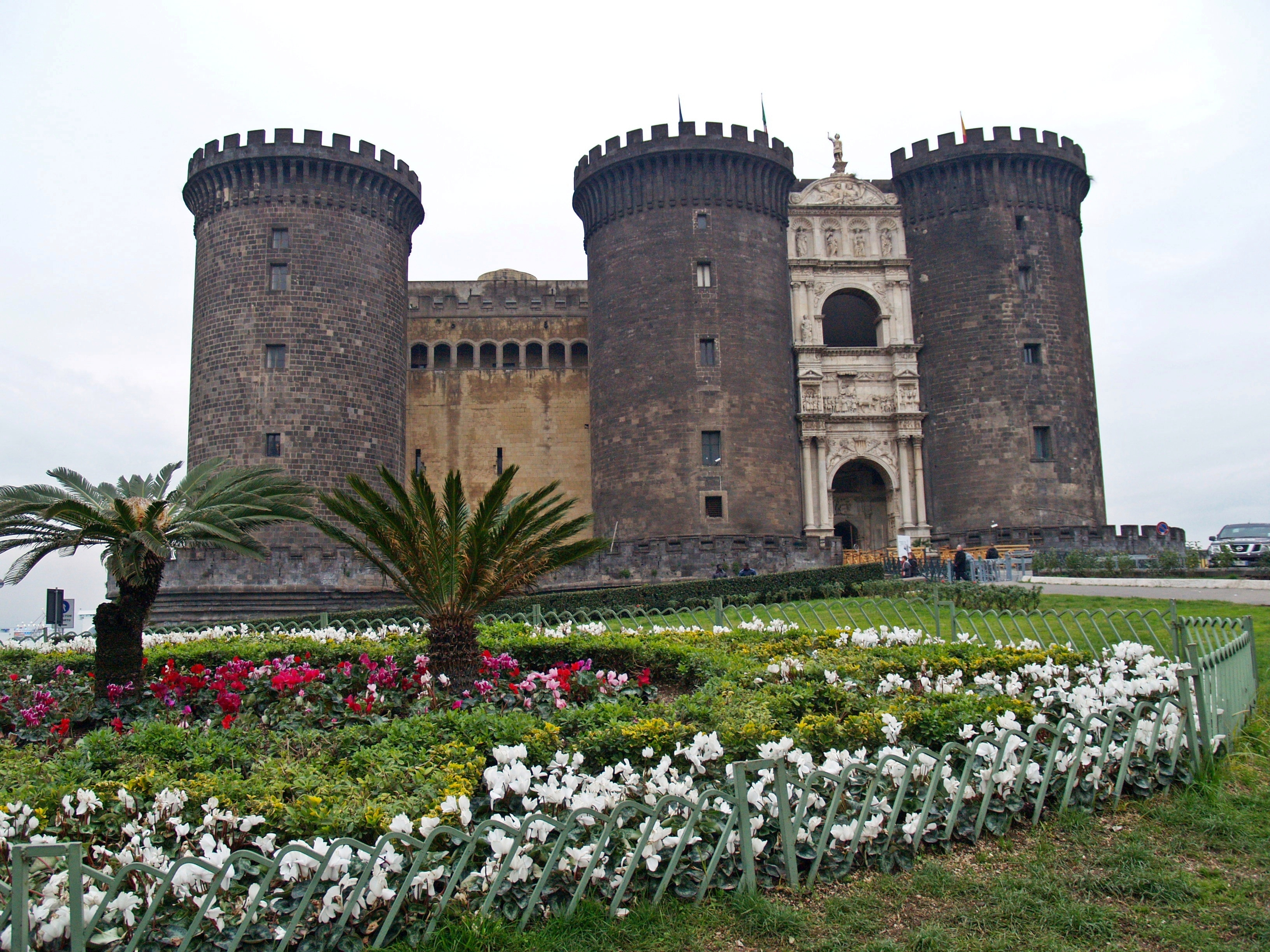 Castel Nuovo (Maschio Angioino), Naples